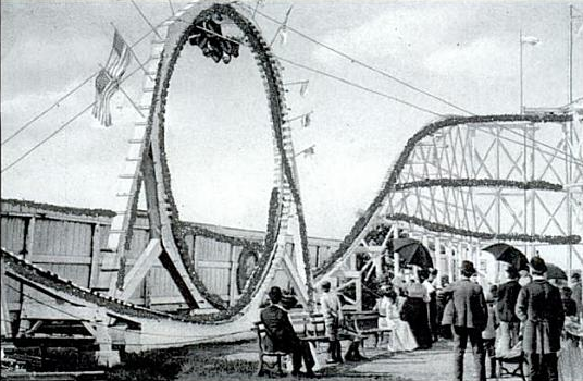 Flip Flap Railway roller coaster